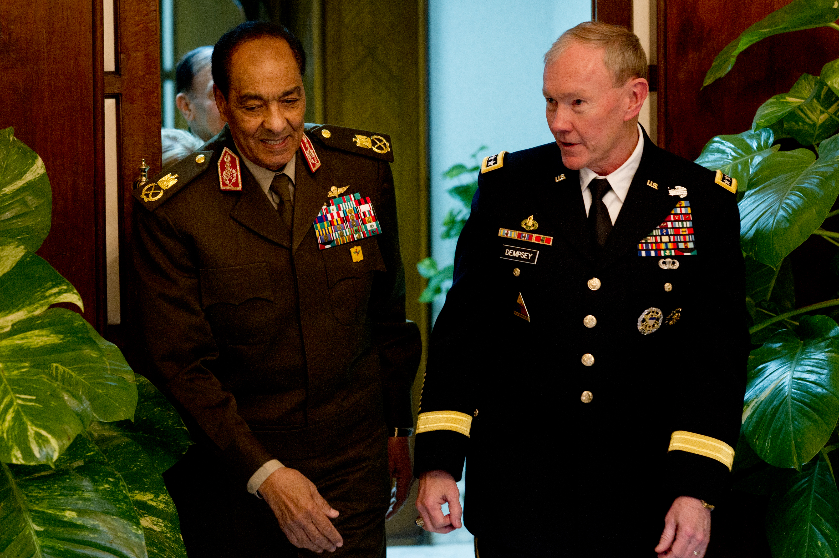 Chairman of the Joint Chiefs of Staff Gen. Martin E. Dempsey and Field Marshal Mohammed Hussein Tantawi at the Egyptian Ministry of Defense in Cairo, Egypt, Feb. 11, 2012. DoD photo by D. Myles Cullen